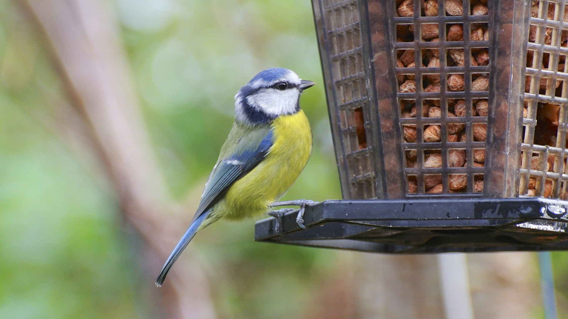 Taken from my new bird hide.